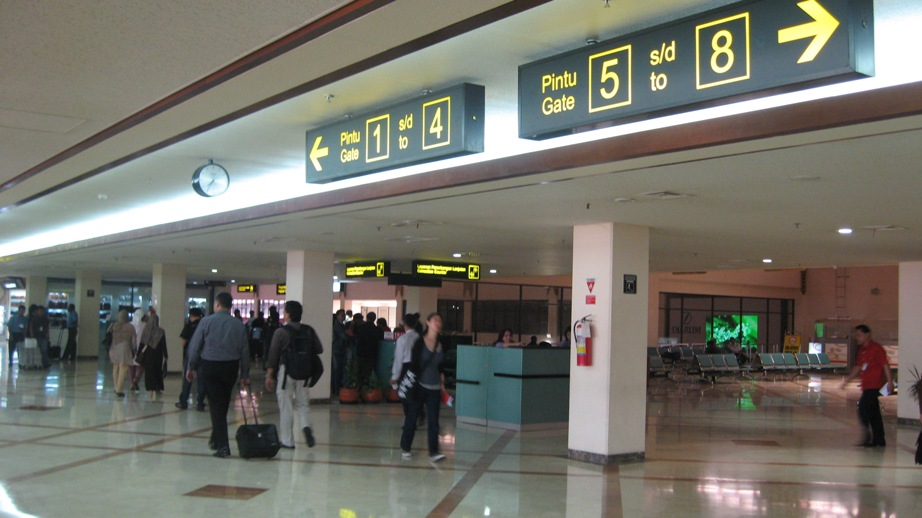 2nd Floor Juanda International Airport Terminal